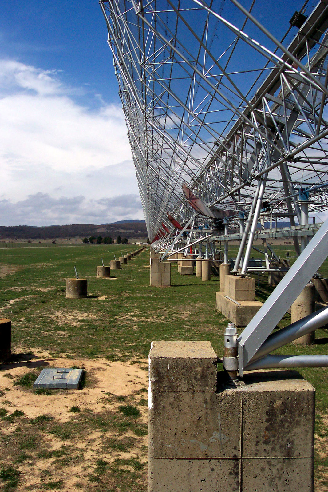 Molonglo Observatory Synthesis Telescope operated by the University of Sydney. I took this on a uni trip. Taken by Enoch Lau on 28 September 2004. As a courtesy, please let me know if you alter this image or this image description page. Original filename was 100_3328.JPG.